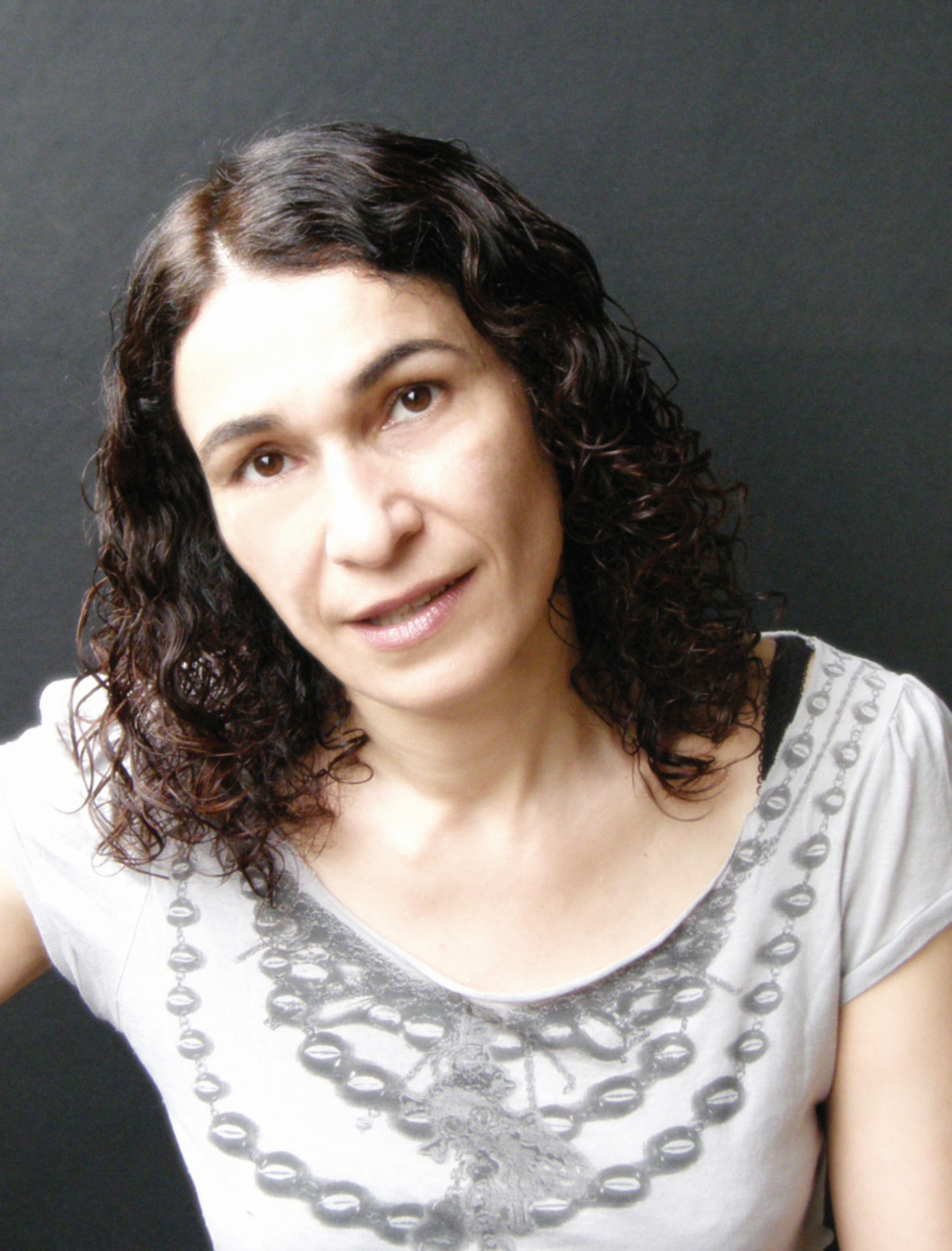 לילי בן נחשון